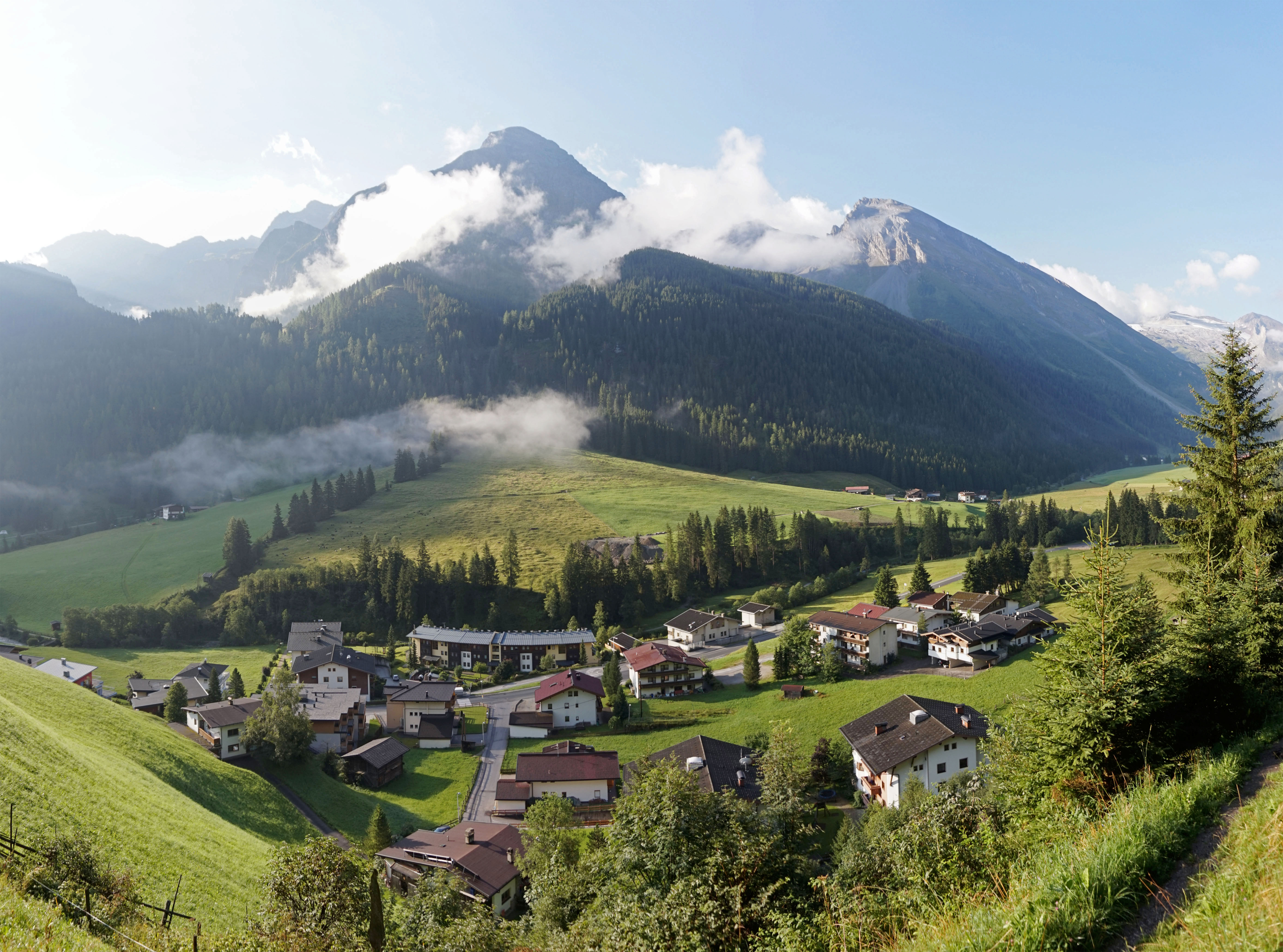 Juns in August 2017, Austria. This photograph was taken with a Sony Alpha a5000.